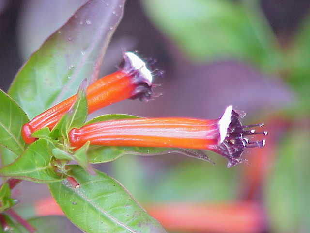 Species: Cuphea ignea Family: Lythraceae Image No. 2